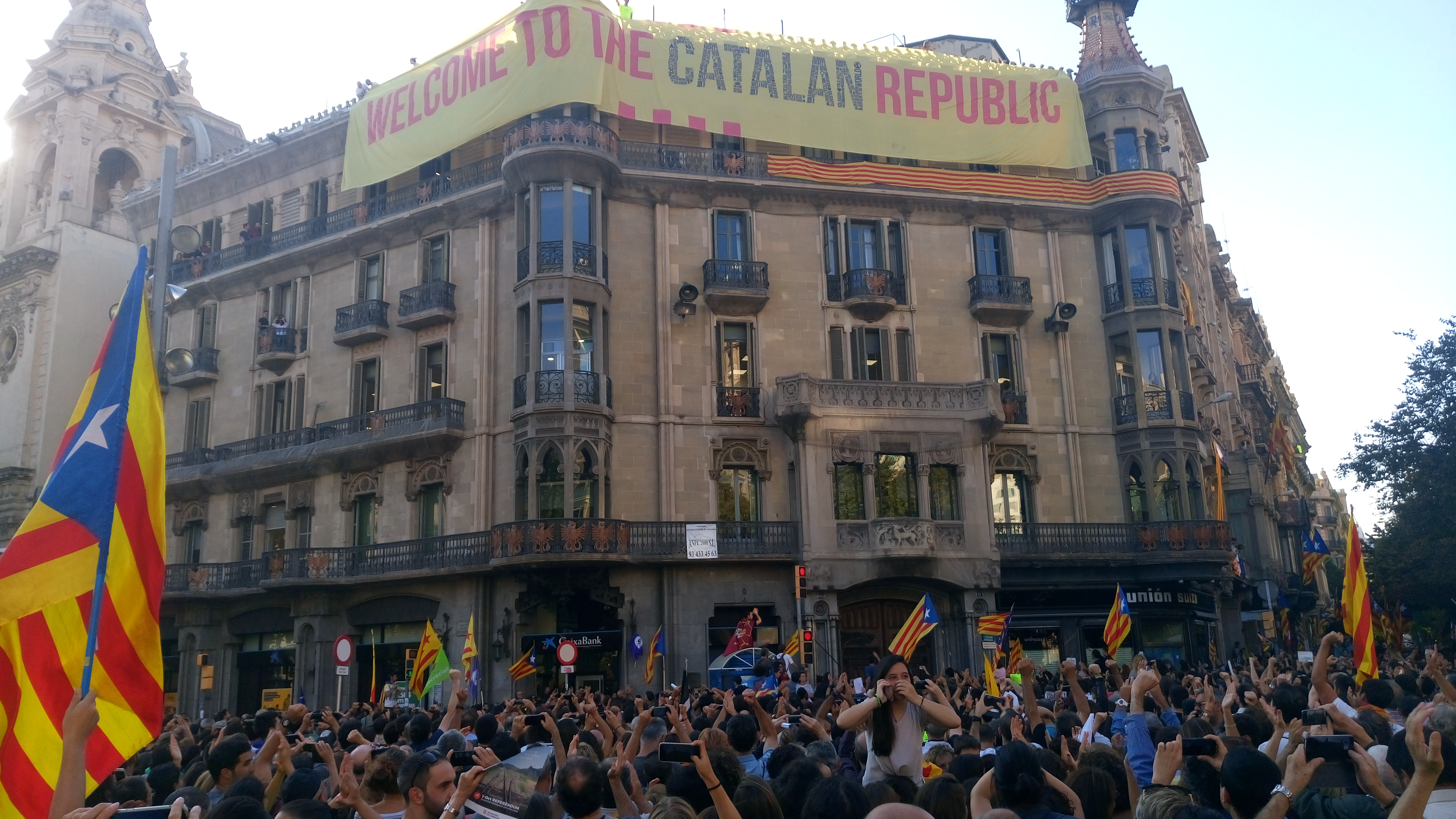 Catalan demonstrations September 20th in Passeig de Gràcia / Gran Via